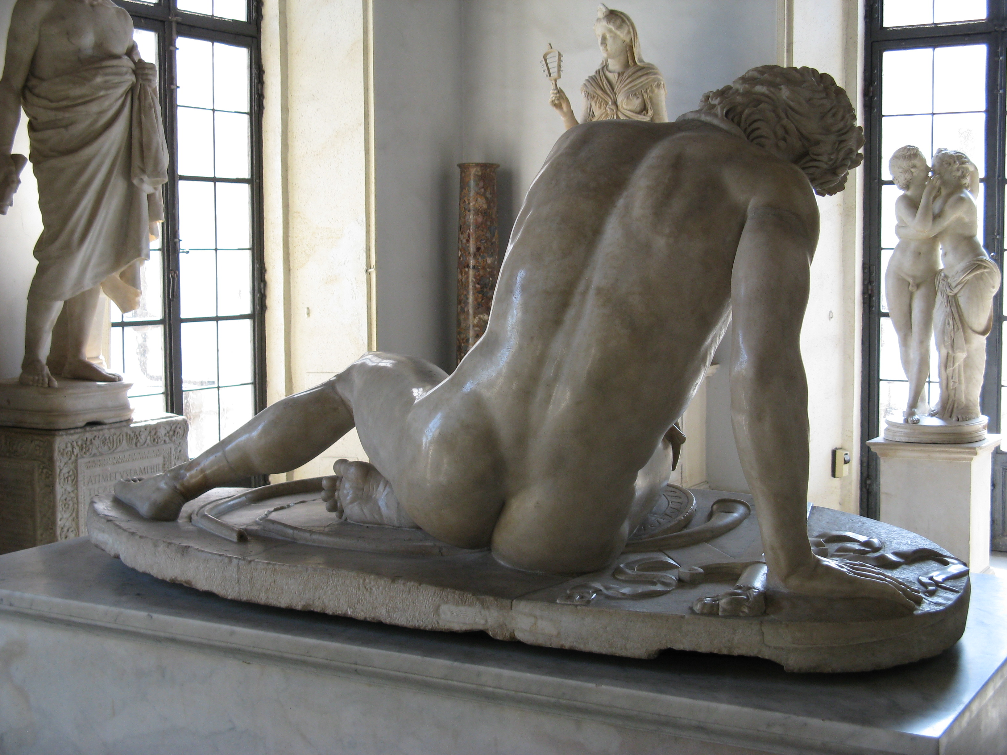 The Dying Gaul is one of the best-known and most important works in the Capitoline Museums. It is a replica of one of the sculptures in the ex-voto group dedicated to Pergamon by Attalus I to commemorate the victories over the Galatians in the 3rd and 2nd centuries BC. The identity of the author of the original is unknown, but it has been suggested that Epigonus, the court sculptor of the Attalid dynasty of Pergamon, may have been its creator. posterior view